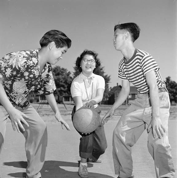 Chinese Children playing basketball in Chinatown, Vancouver, B.C, November 1951